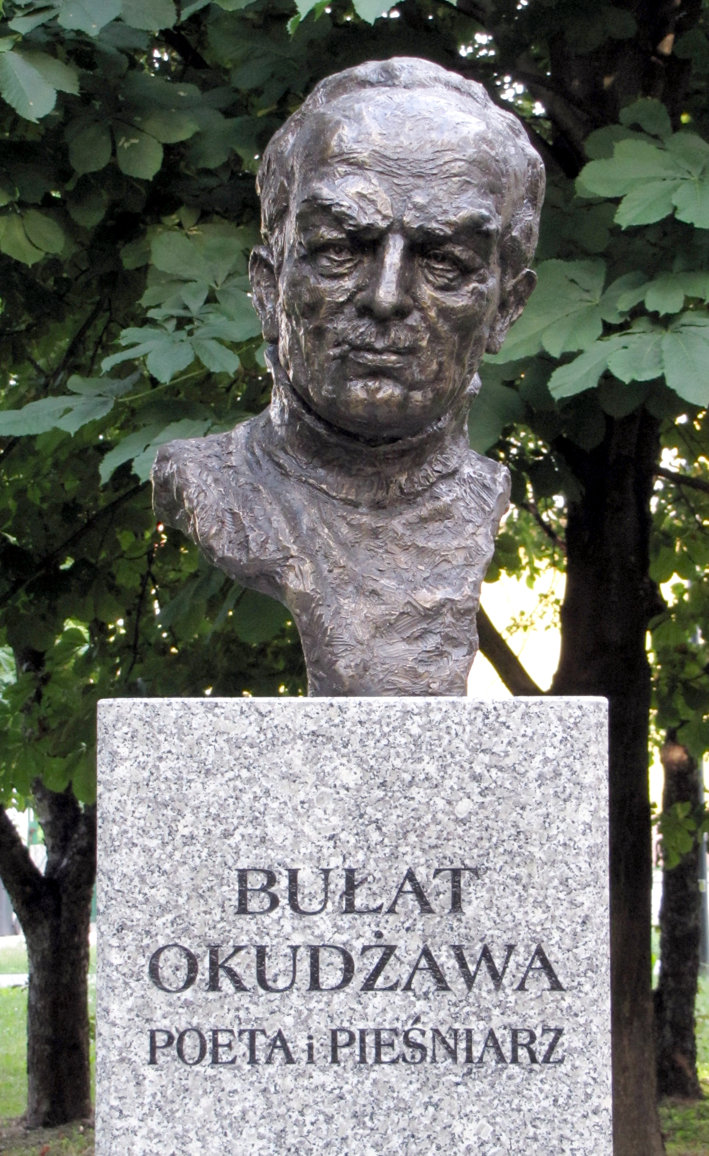 Bust of Bulat Okudzhava in Celebrity Alley in Kielce (Poland)